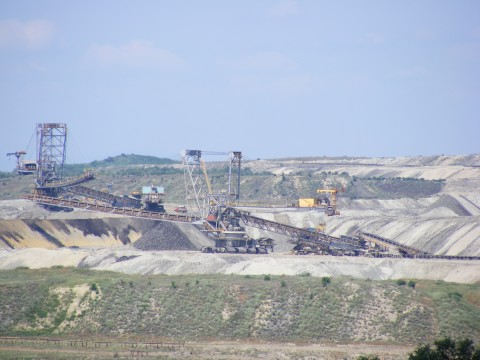 Free and Public Domain Photos – Coal Mining, Pinoasa Gorj-Romania More photos and details about possible copyright or licensing restrictions here: Full Size Up to 3072 x 2304 pixels Information Regarding Copyright